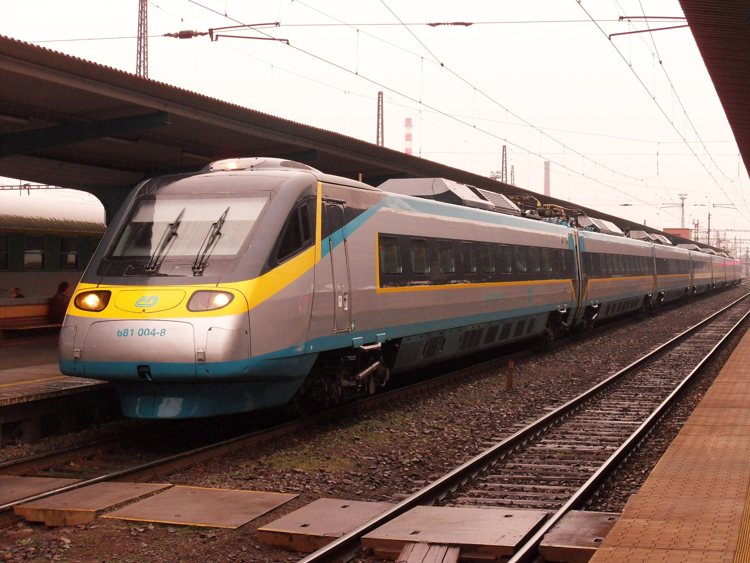 680.004 electric multiple unit of České dráhy, station Pardubice hlavní nádraží, Czech Republic